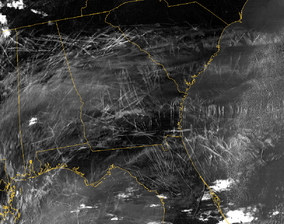 Contrail Clutter over Georgia. Photo from MODIS/Terra Satellite (NASA) Explanation from NASA: Artificial clouds made by humans may become so common they change the Earth's climate. The long thin cloud streaks that dominate the above satellite photograph of Georgia are contrails, cirrus clouds created by airplanes. The exhaust of an airplane engine can create a contrail by saturating the surrounding air with extra moisture. The wings of a plane can similarly create contrails by dropping the temperature and causing small ice-crystals to form. Contrails have become more than an oddity - they may be significantly increasing the cloudiness of Earth, reflecting sunlight back into space by day, and heat radiation back to Earth even at night. The effect on climate is a topic of much research. this year (2004), NASA made measure of abundance of contrails with people participation in a contrail counting exercise during two days.